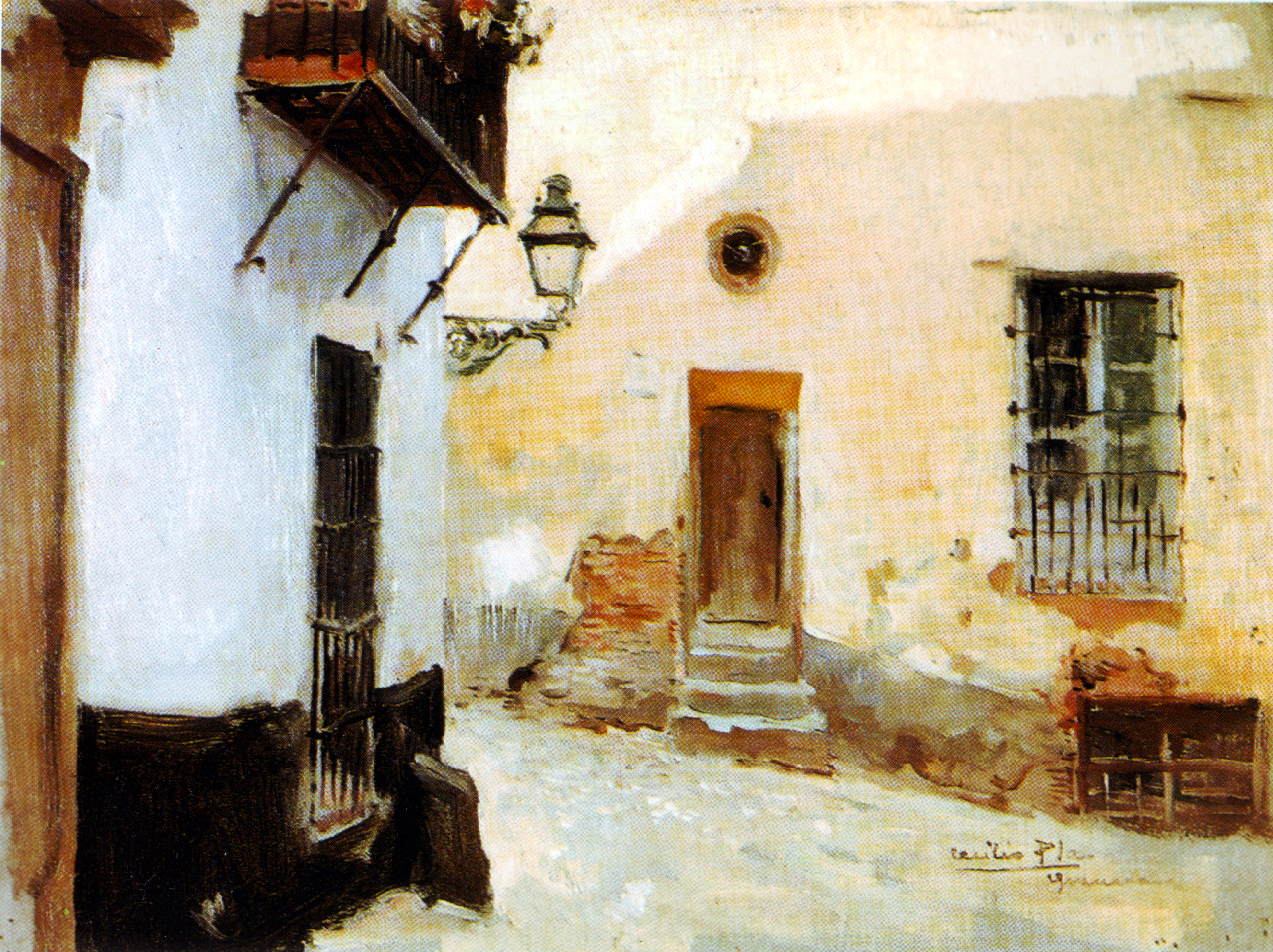 A corner of Granada